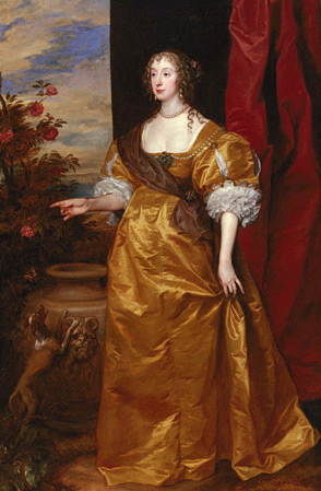 Anne Killigrew (1660-1685)